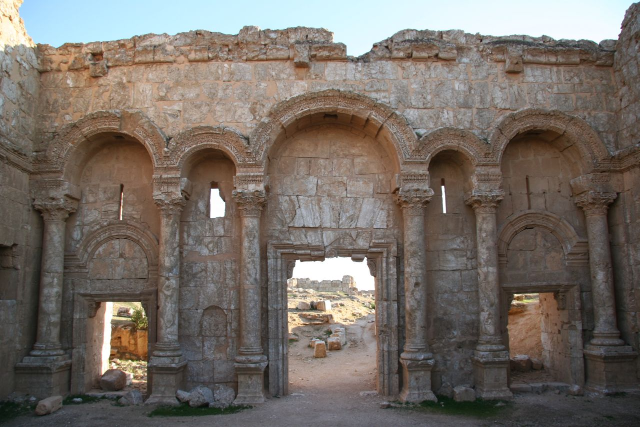 North gate of the city of Resafa-Sergiupolis